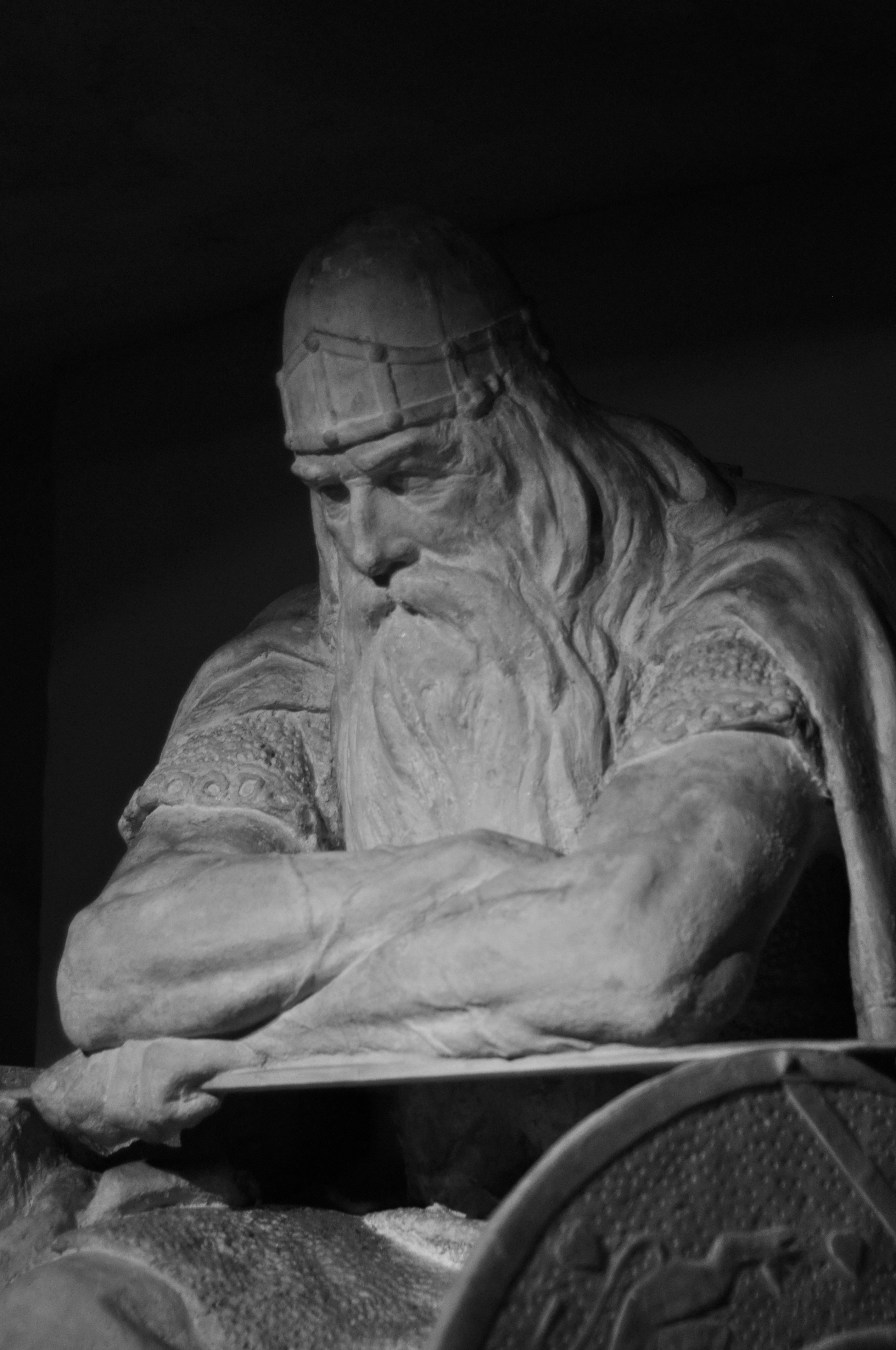 According to a legend linked to Arthurian myth, a Danish king known as Ogier the Dane, was taken to Avalon by Morgan le Fay. He returned to rescue France from danger, then travelled Kronborg castle, where he sleeps until he is needed to save his homeland.